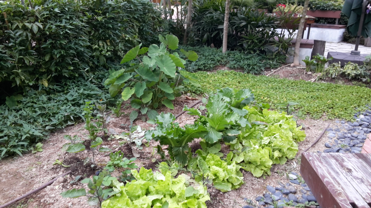 Leaves of carrot in Serene Oasis